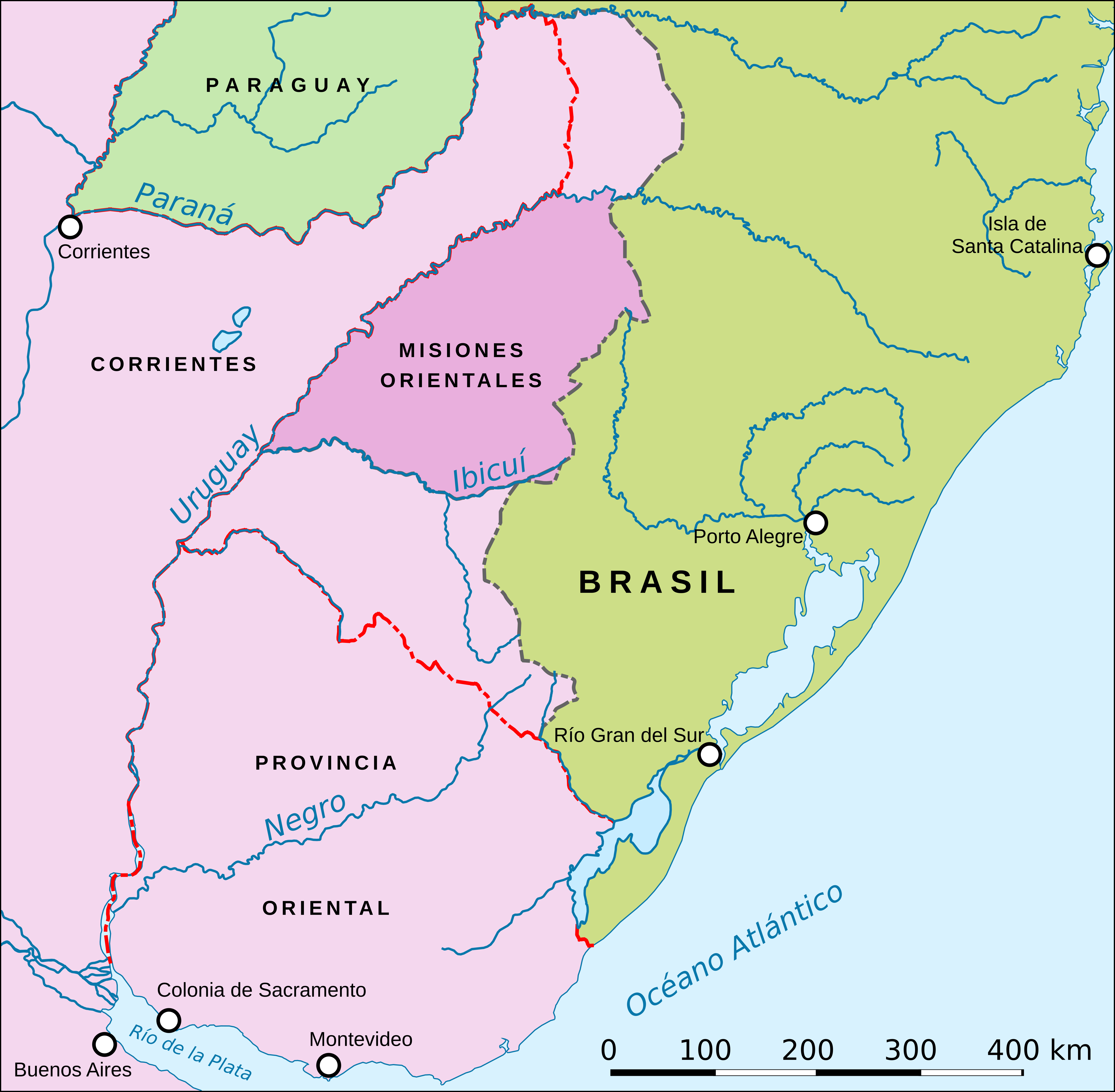 Eastern Jesuit missions and reductions and Jesuits the Eastern province between 1811 and 1819